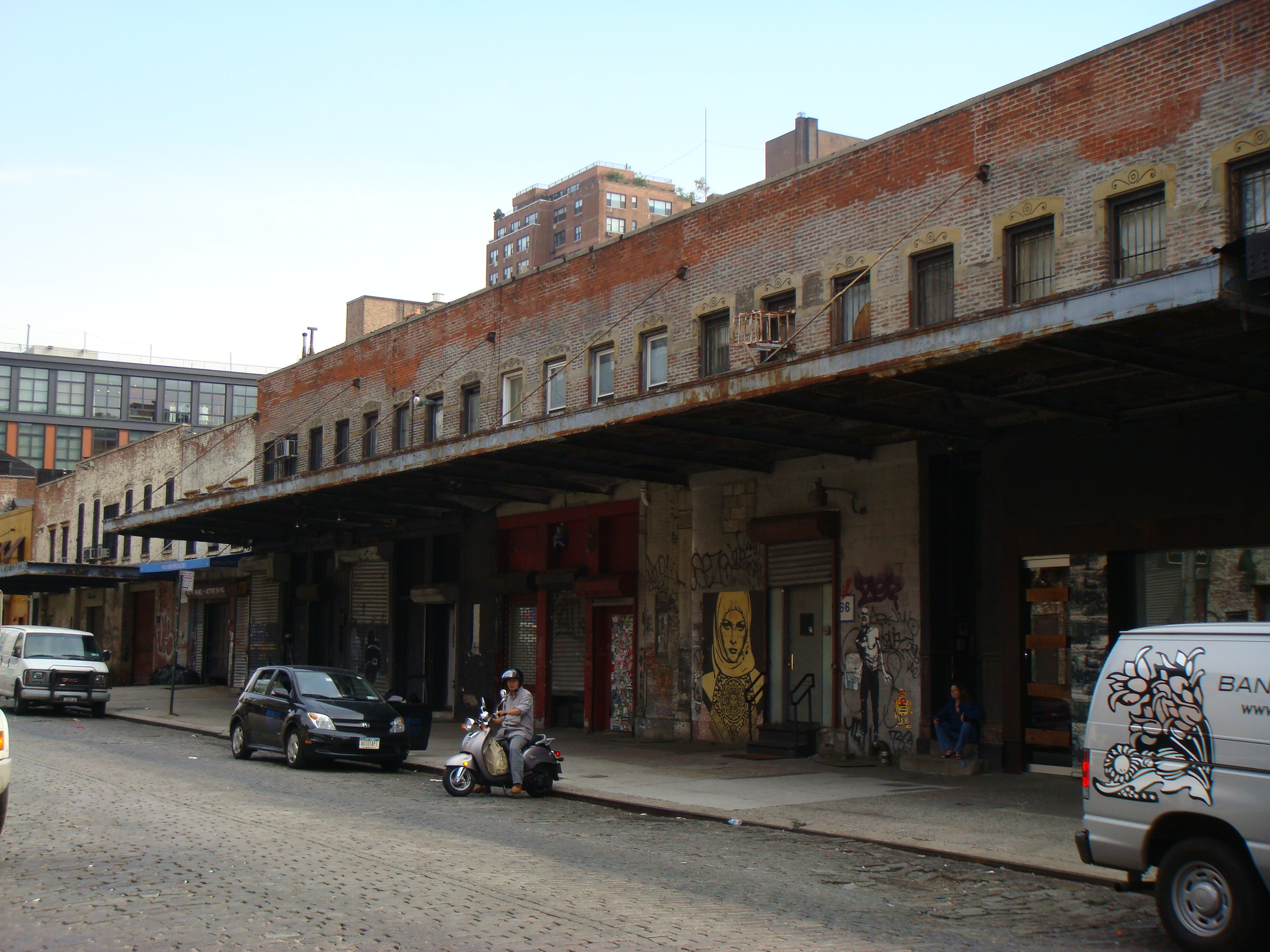 Gansevoort Market Historic District. This photo is of approximately 54 to 68 Gansevoort Street.